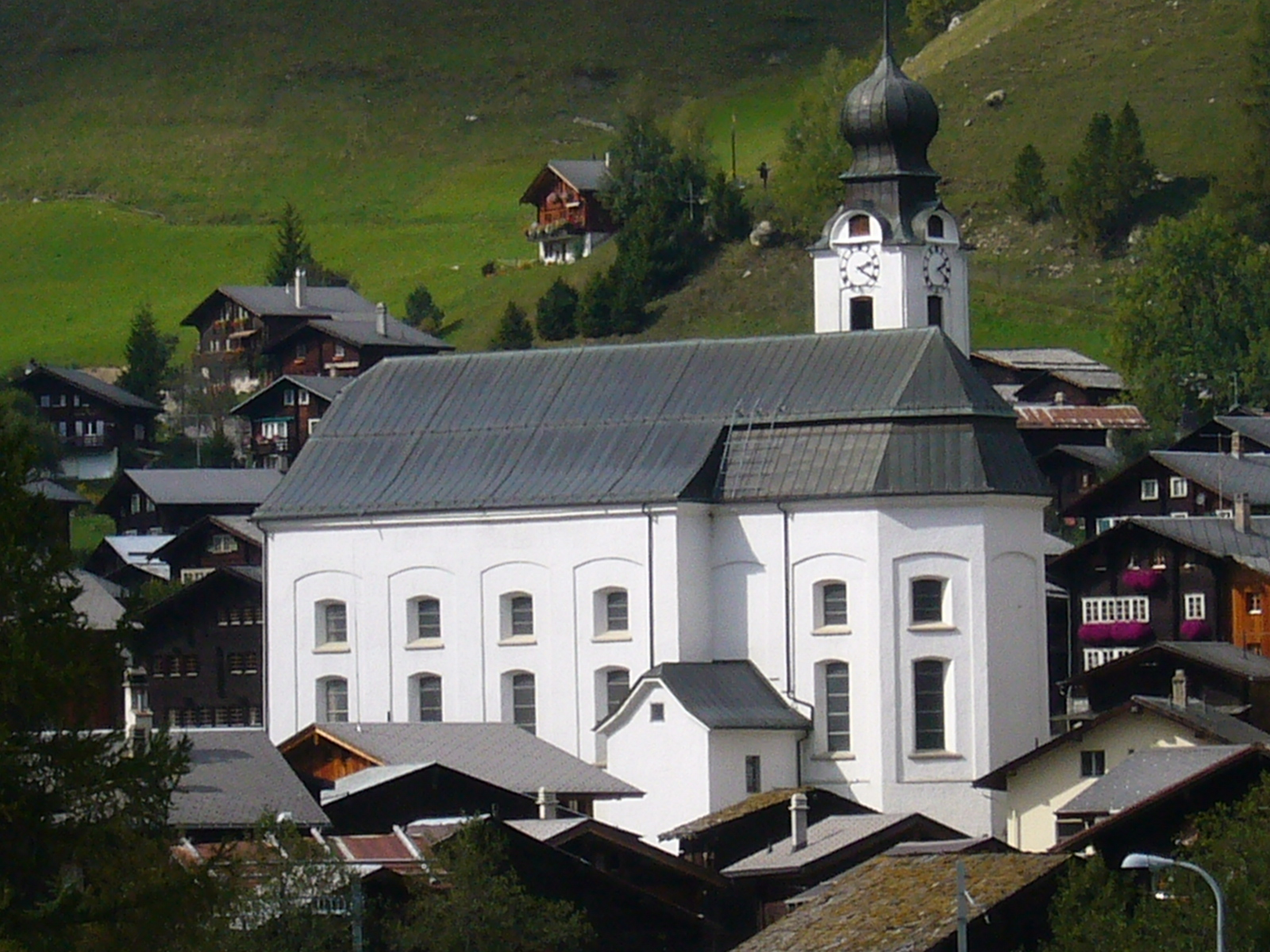 Church in the village of Reckingen, canton of Vallais, Switzerland